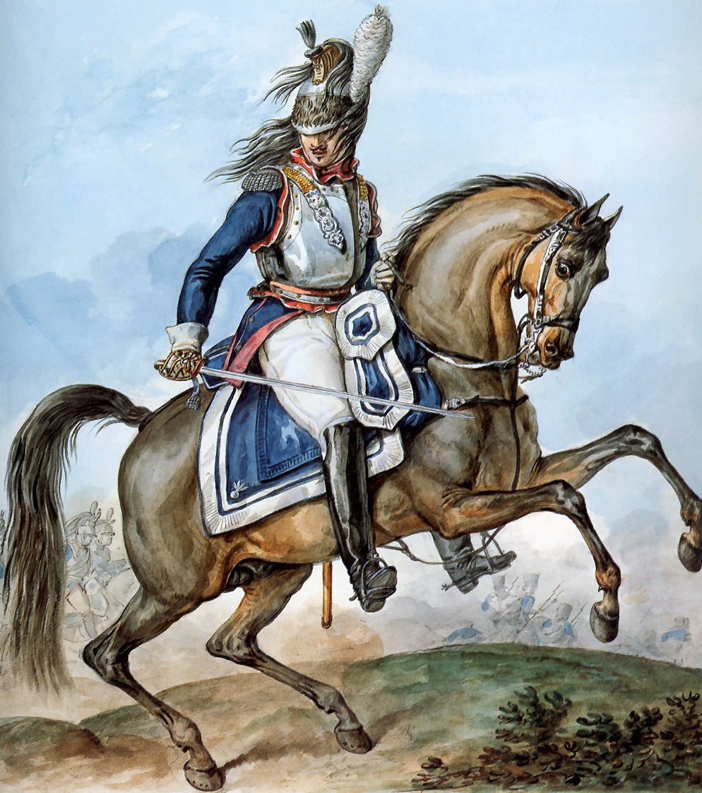 Part of a series chronicling the uniforms of Napoleon's Grande Armée.